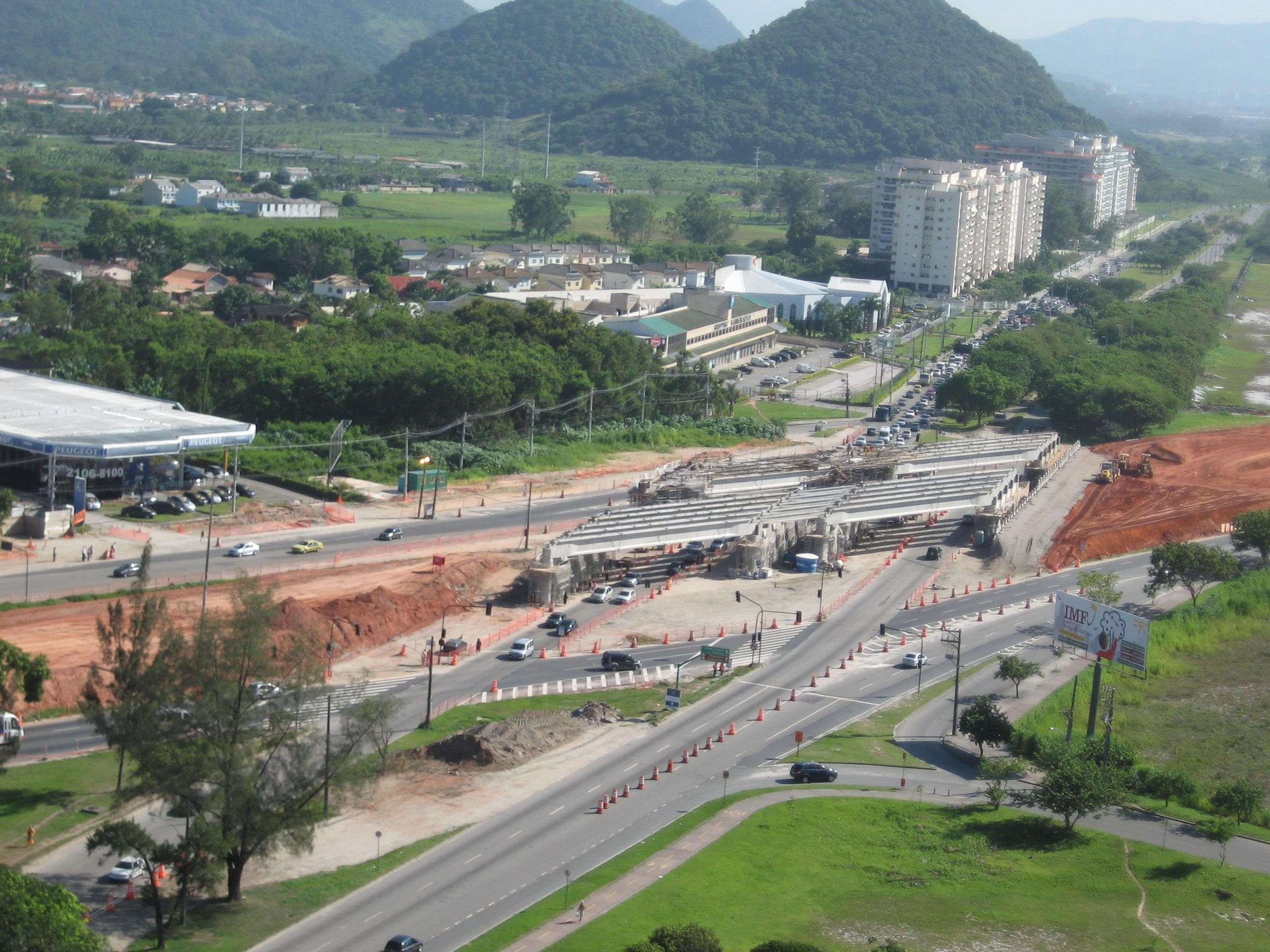 Construction of flyover at the intersection of Americas Avenue, Salvador Allende Avenue and Alfredo Baltazar da Silveira Avenue - January 2011